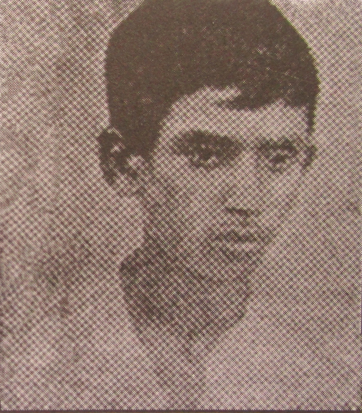 Monoranjan Vattacharya